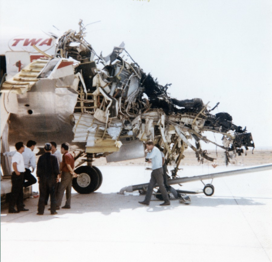 PictionID:54641529 - Catalog:22_000085.tif - Title:Boeing 707 N776TW TWA, which had been hijacked as flight 840 Jordan 1969 - Filename:22_000085.tif - - Image from the Arkansas Aviation Historical Society, which donated a large collection of archival material to the San Diego Air and Space Museum in 2016--Please Tag these images so that the information can be permanently stored with the digital file.---Repository: San Diego Air and Space Museum